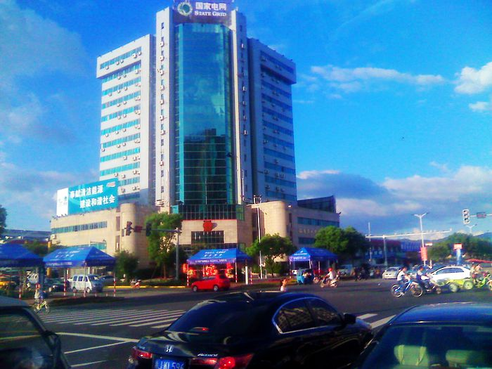 xianjuxianfudalou.jpg